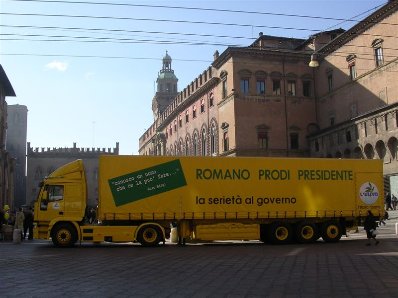 Piazza Maggiore, Bologna (Italy) Italian general election 2006, "L'unione" headed by Romano Prodi seeks funds among the people around italian cities.